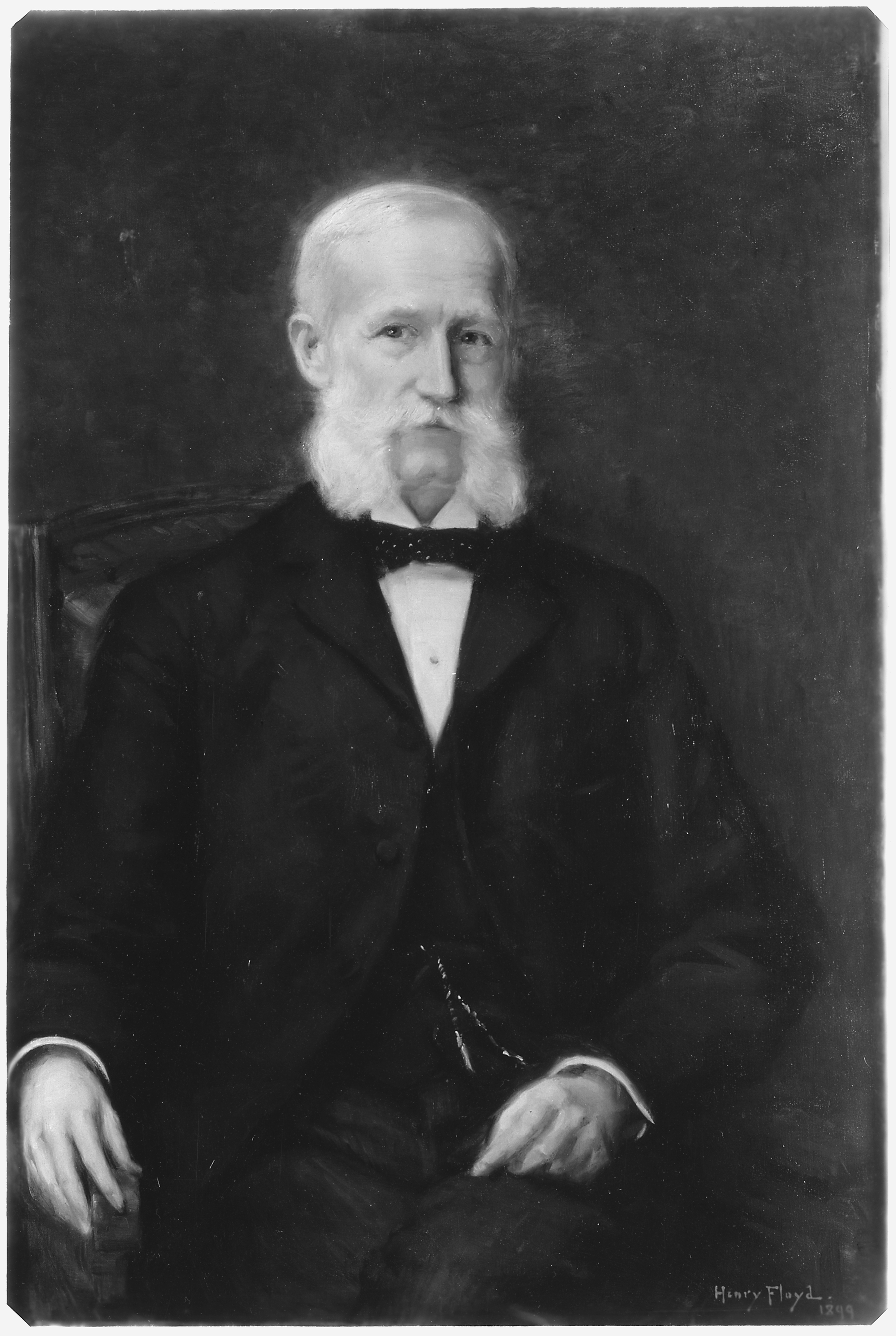 Scope and content: Secretary of state under President Benjamin Harrison. Chairman of the committee who advised and assisted William Duncan in the removal of his mission colony from British Columbia to Alaska in 1887.